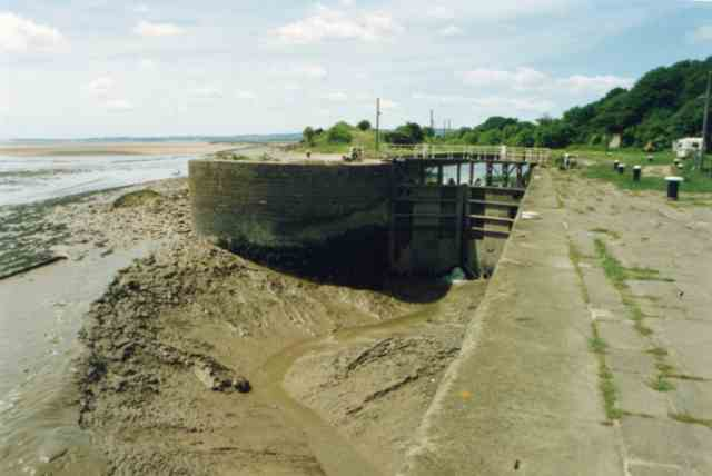 Canal Gates at Lydney Harbour The canal has not been used for many years but the gates are in good condition.